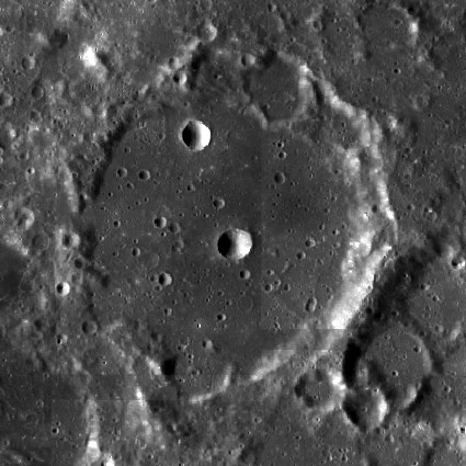 Babcock crater LROC image